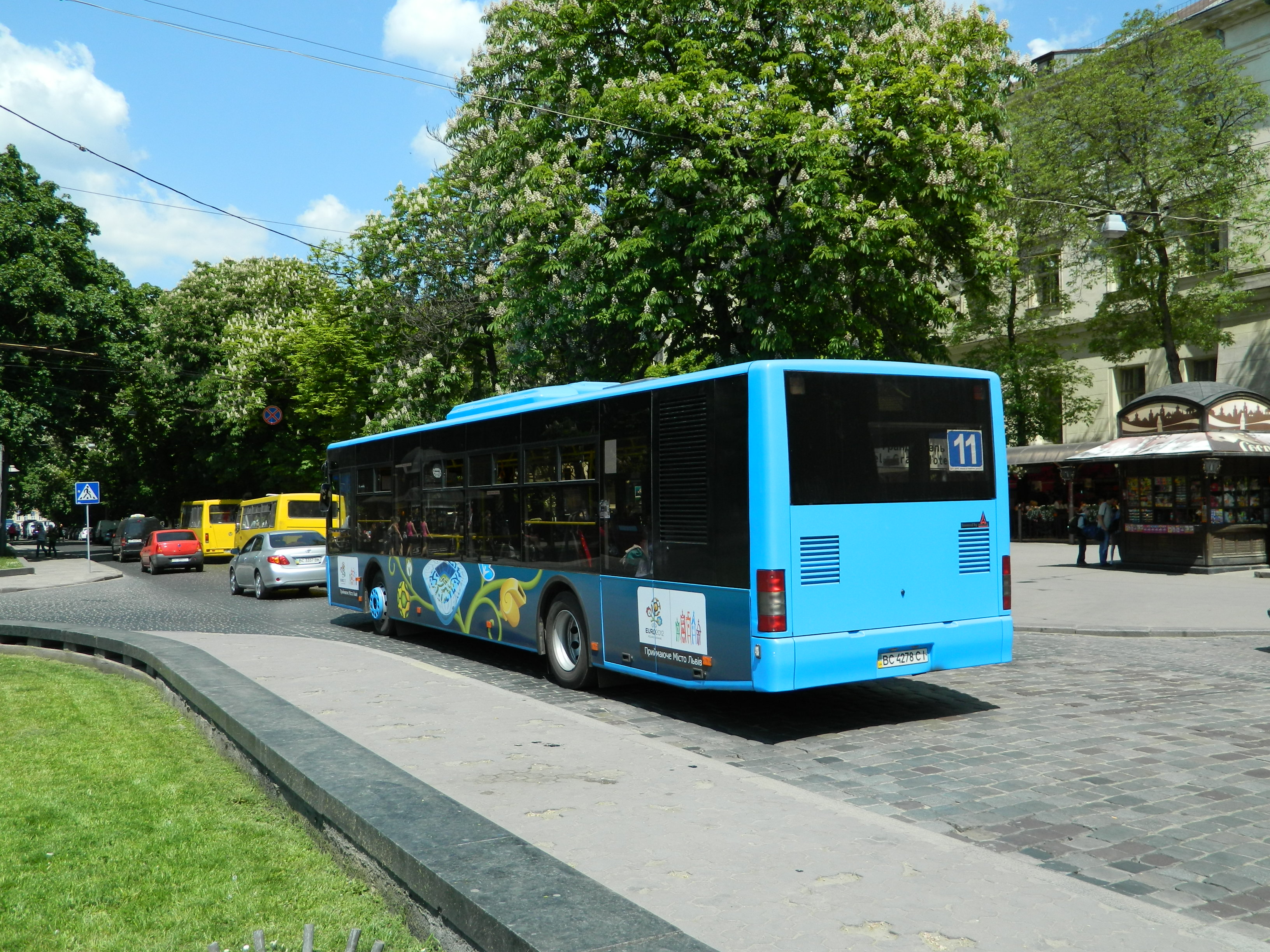 CityLAZ 12 (LAZ A183D1) bus (BC 4278 CI) in Lviv, Ukraine. Rear view. Built 2010, ЛКП АТП №1 operator.